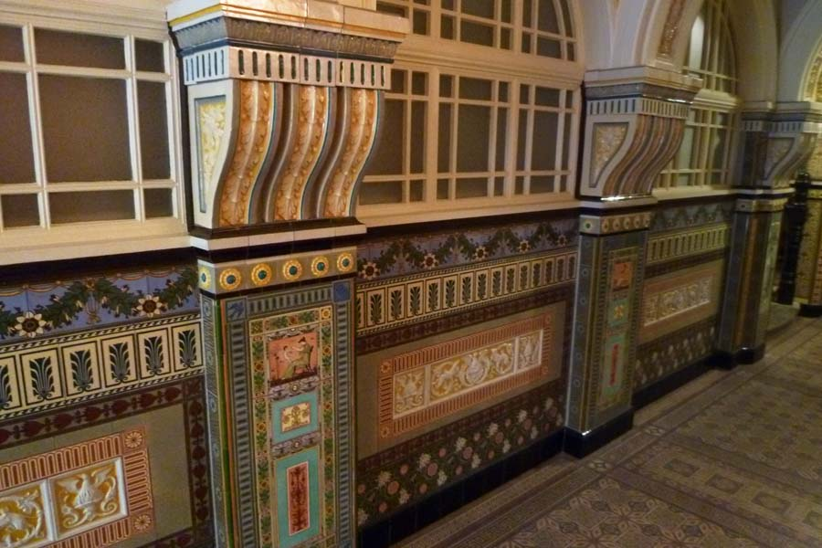 Colourful ceramic tiles by Maw & Co in the original entrance hall of the Old Library, Cardiff, Wales